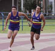 relay race (athletics)